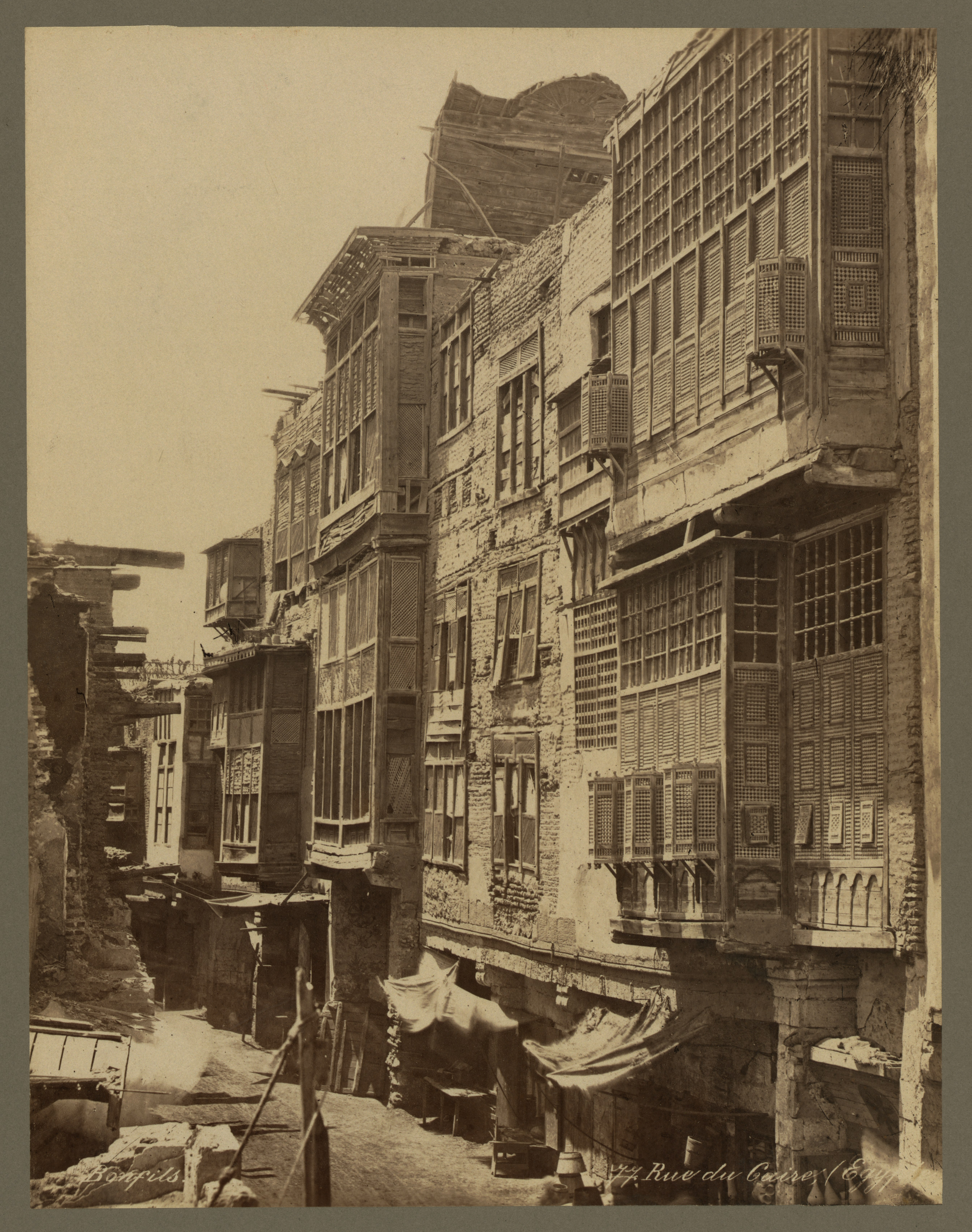 Title: Rue du Caire (Egypte) / Bonfils. Abstract/medium: 1 photographic print : albumen.